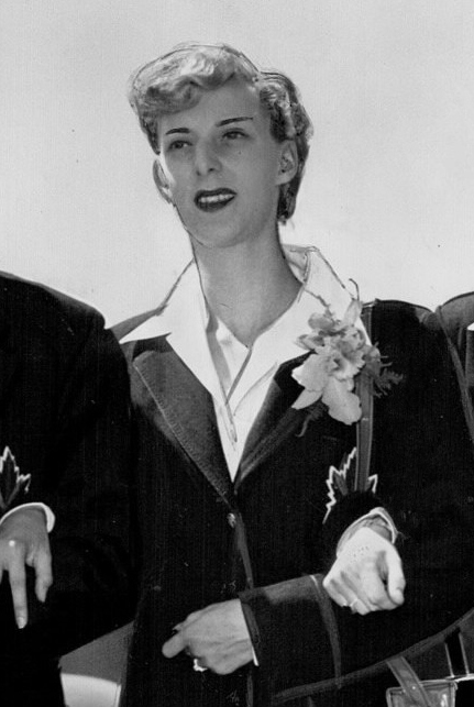 Off to Olympics at London, England: Viola Myers